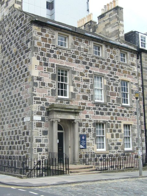 George Square house - 60 George Square. This house stands at the north-west corner of the elegant 18th-century George Square, half of which was demolished by the University of Edinburgh to enable its expansion in the 1960s. It is now part of the University's French Department.